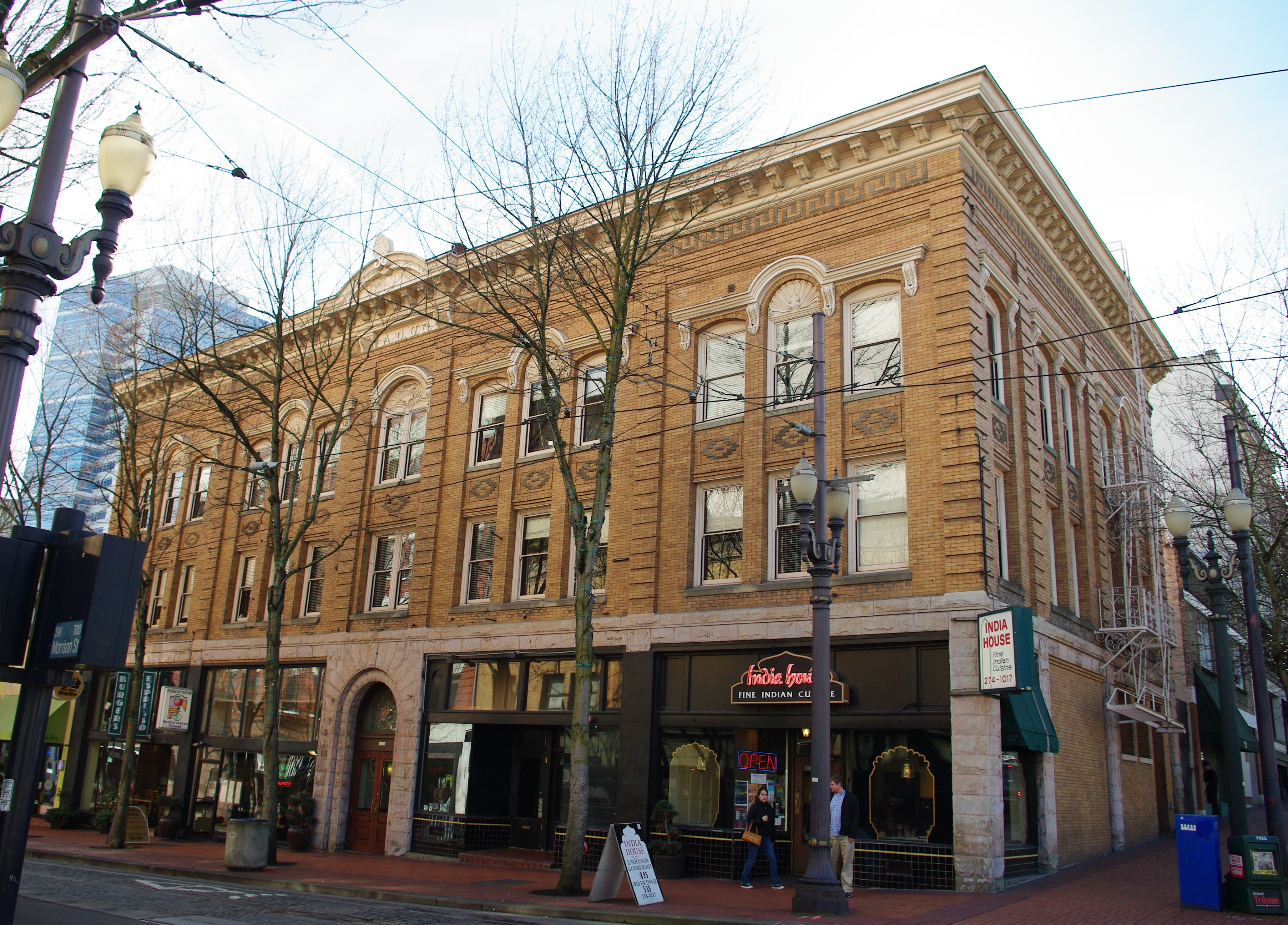 Building in Downtown Portland, Oregon. Listed on the U.S. National Register of Historic Places as the Arminius Hotel.